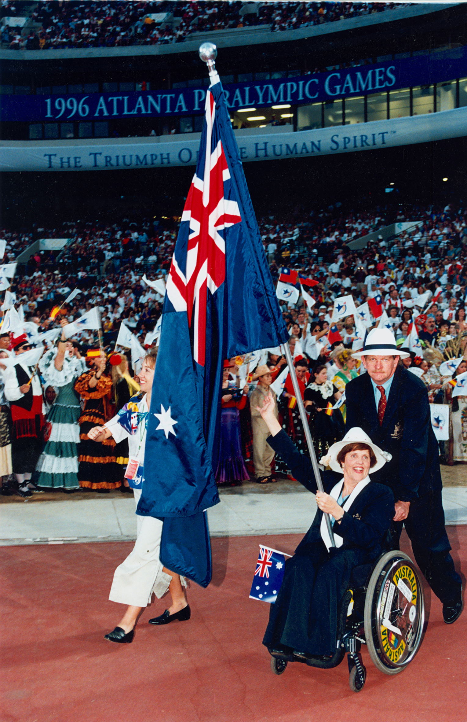 Libby Kosmala (South Australia) carries the flag for Australia in the opening ceremony at the 1996 Atlanta Paralympic Games - her seventh as an athlete - assisted by wheelchair basketball mechanic Graham Gould.